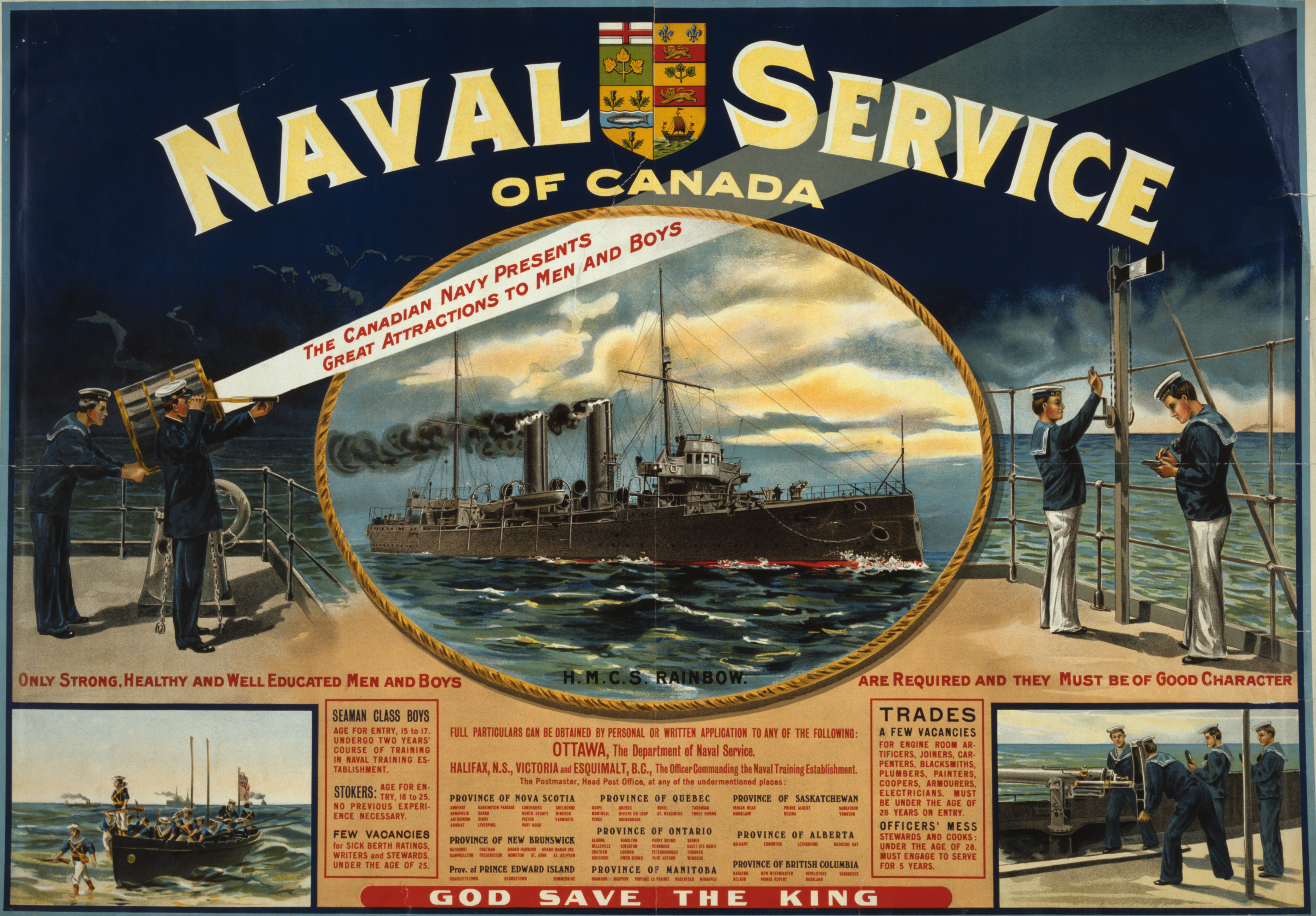 Naval Service of Canada recruiting poster featuring HMCS Rainbow.